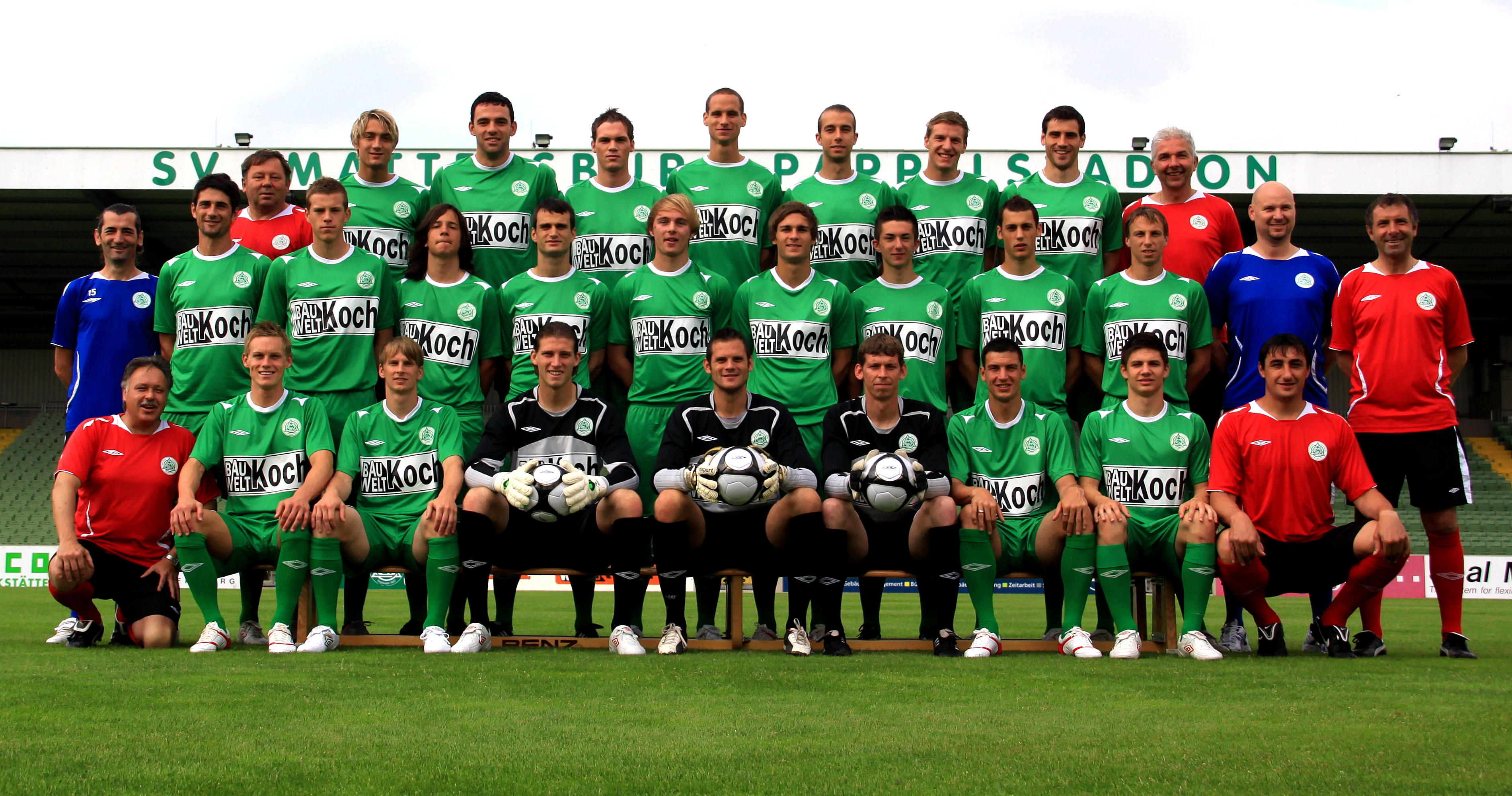 SV Mattersburg Austrian Football Bundesliga 2010–11 → For the names of the players move the mouse over the photo.